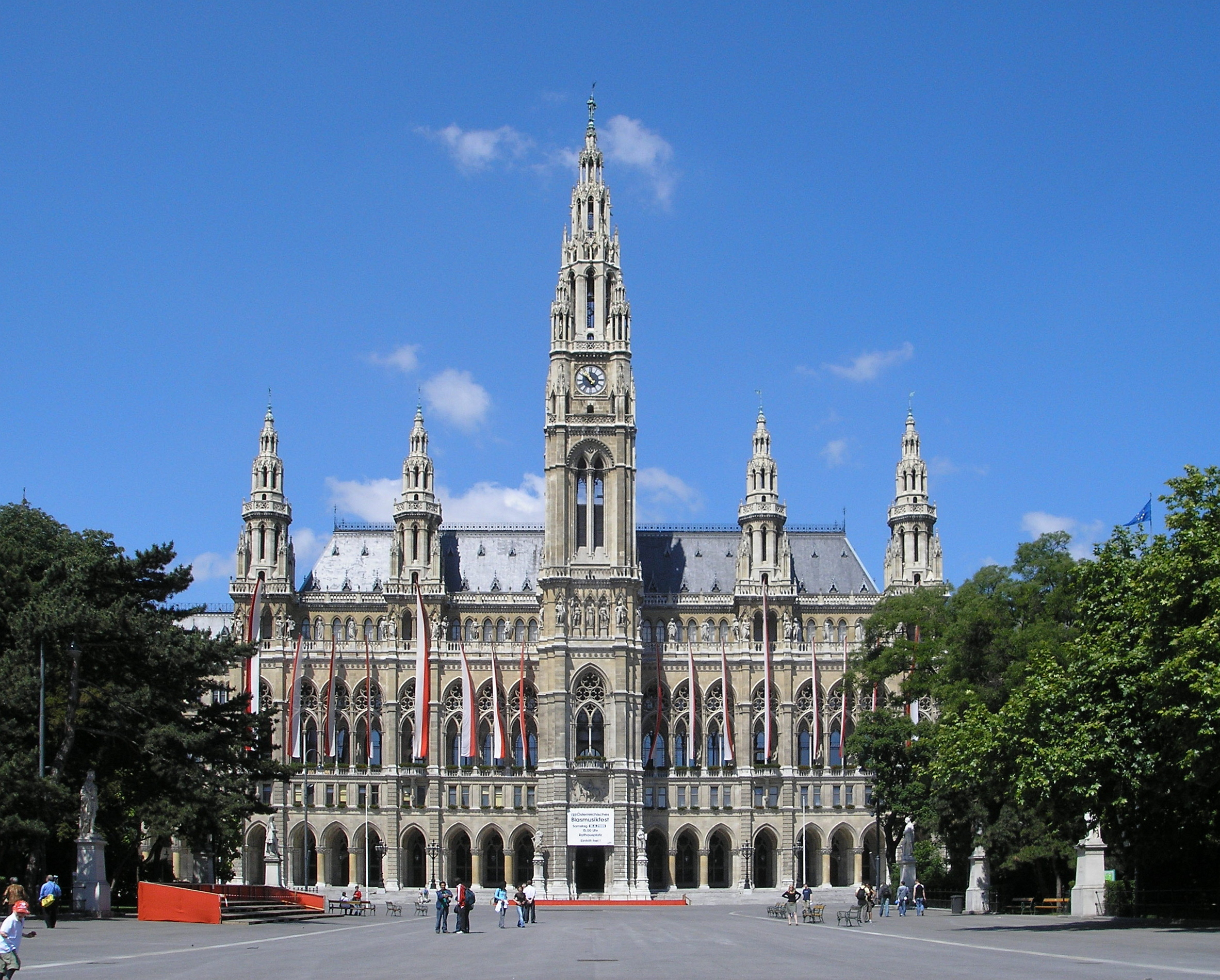 Rathaus (Town hall) in Vienna, Austria